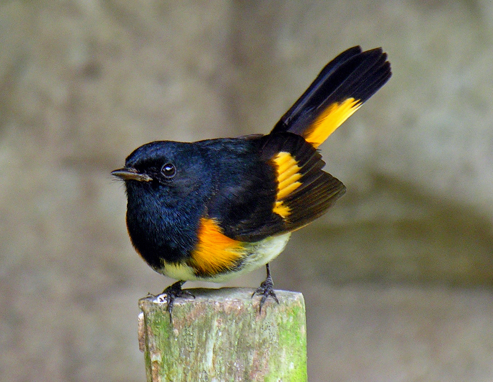 A male American Redstart in Chiquimula, Guatemala.